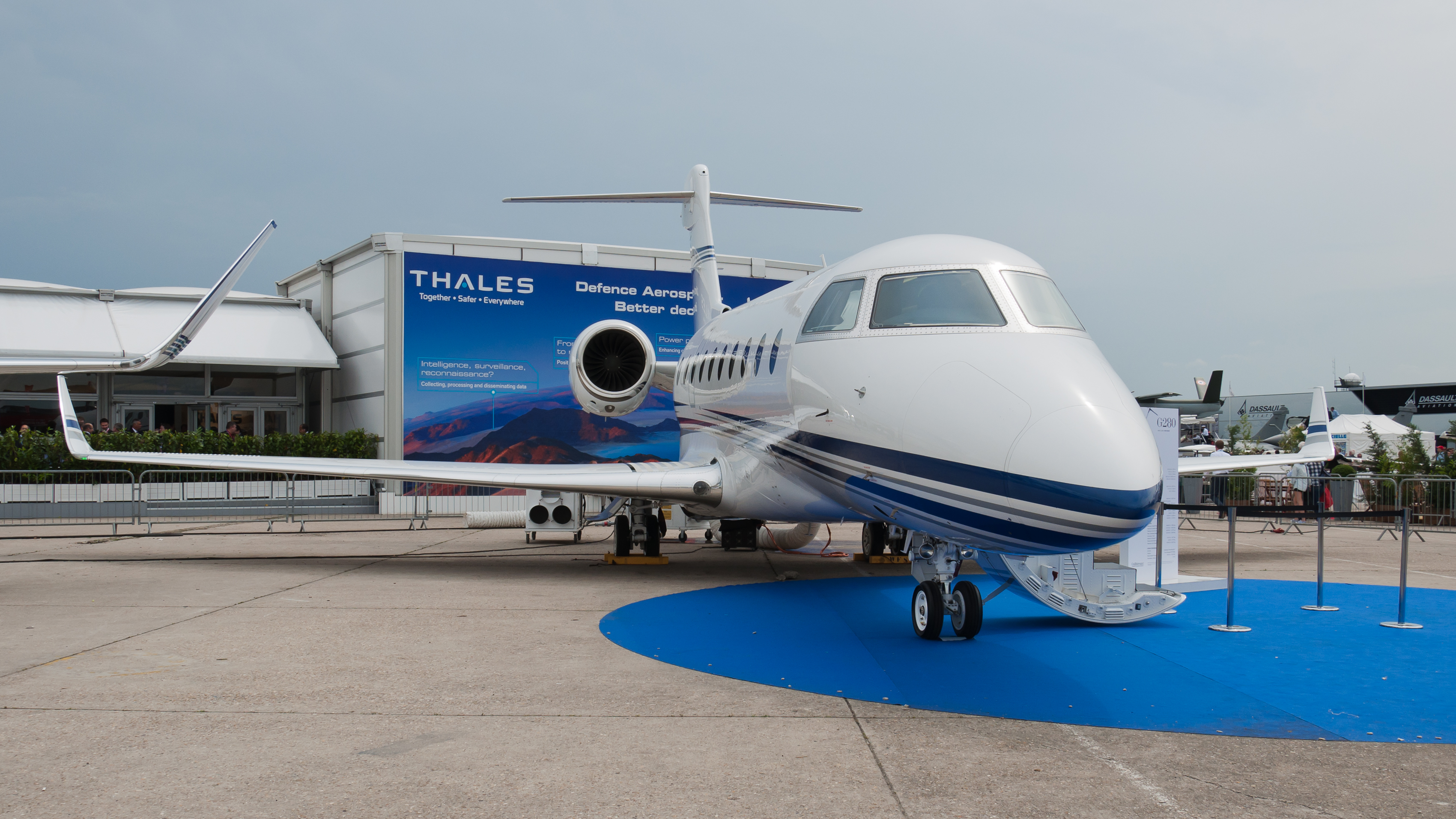 Gulfstream G280 (reg. N280GD, c/n 2004) at Paris Air Show 2013.